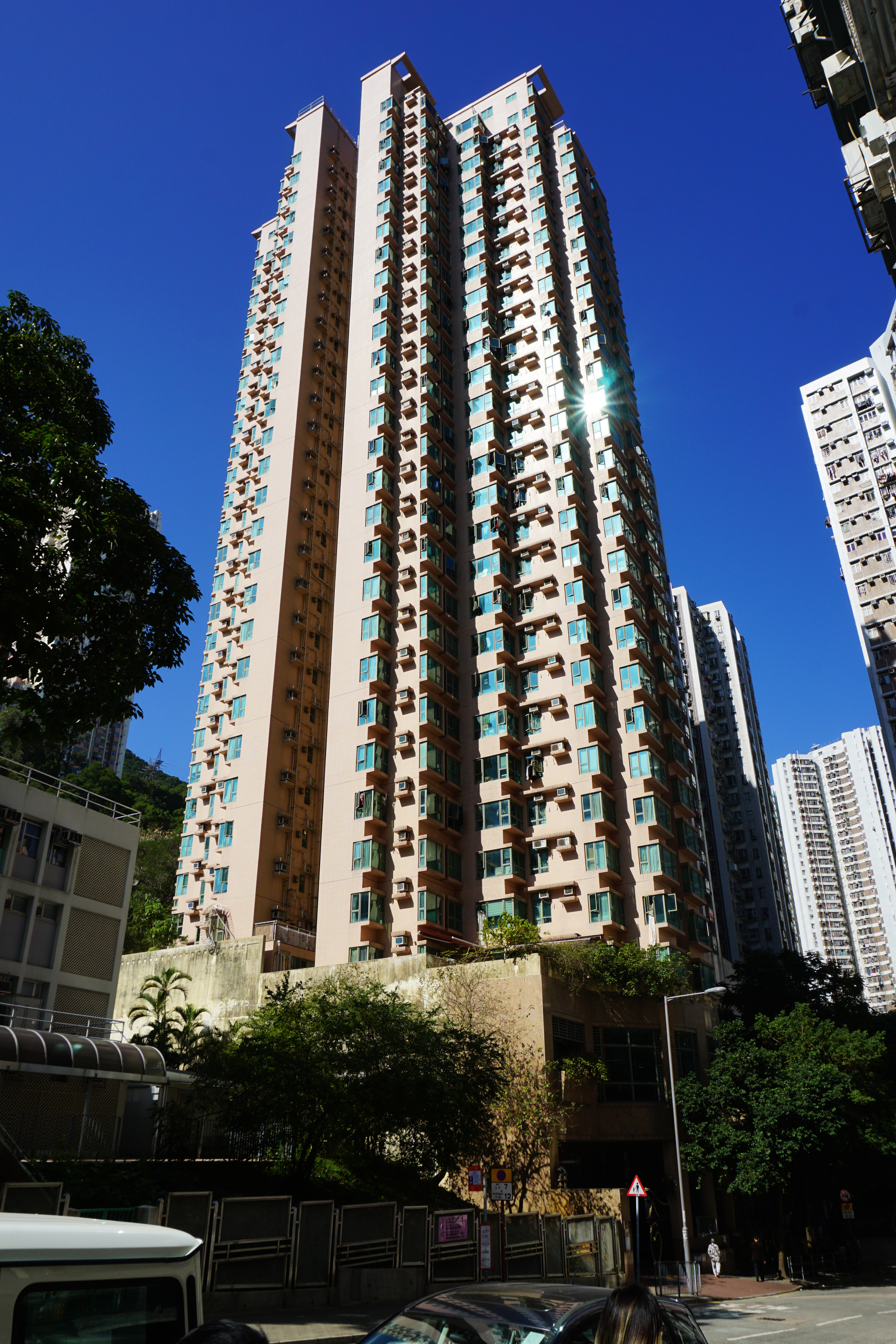 Bayview Park in Chai Wan, Hong Kong.